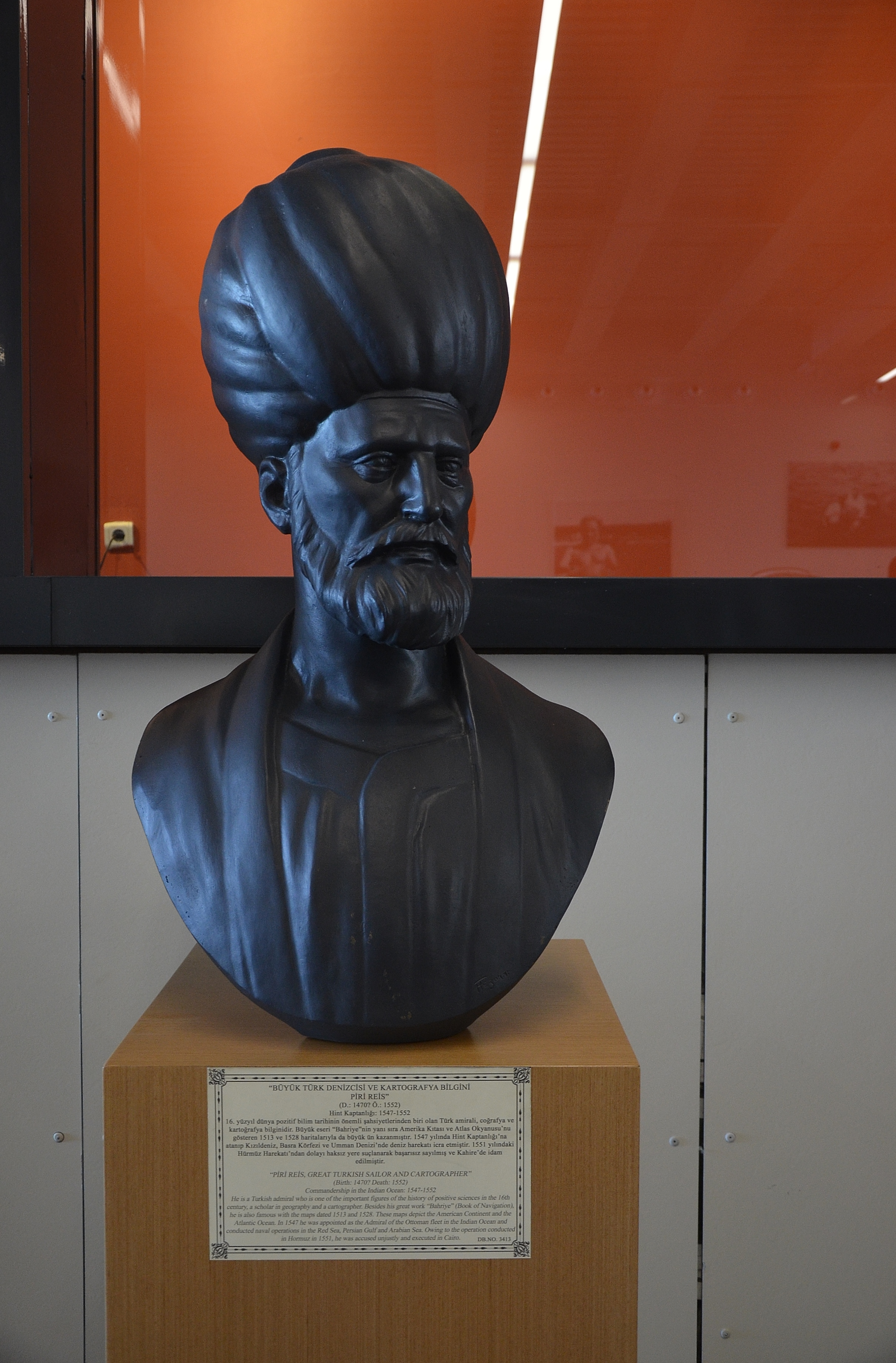 Bust of Piri Reis in the Istanbul Naval Museum